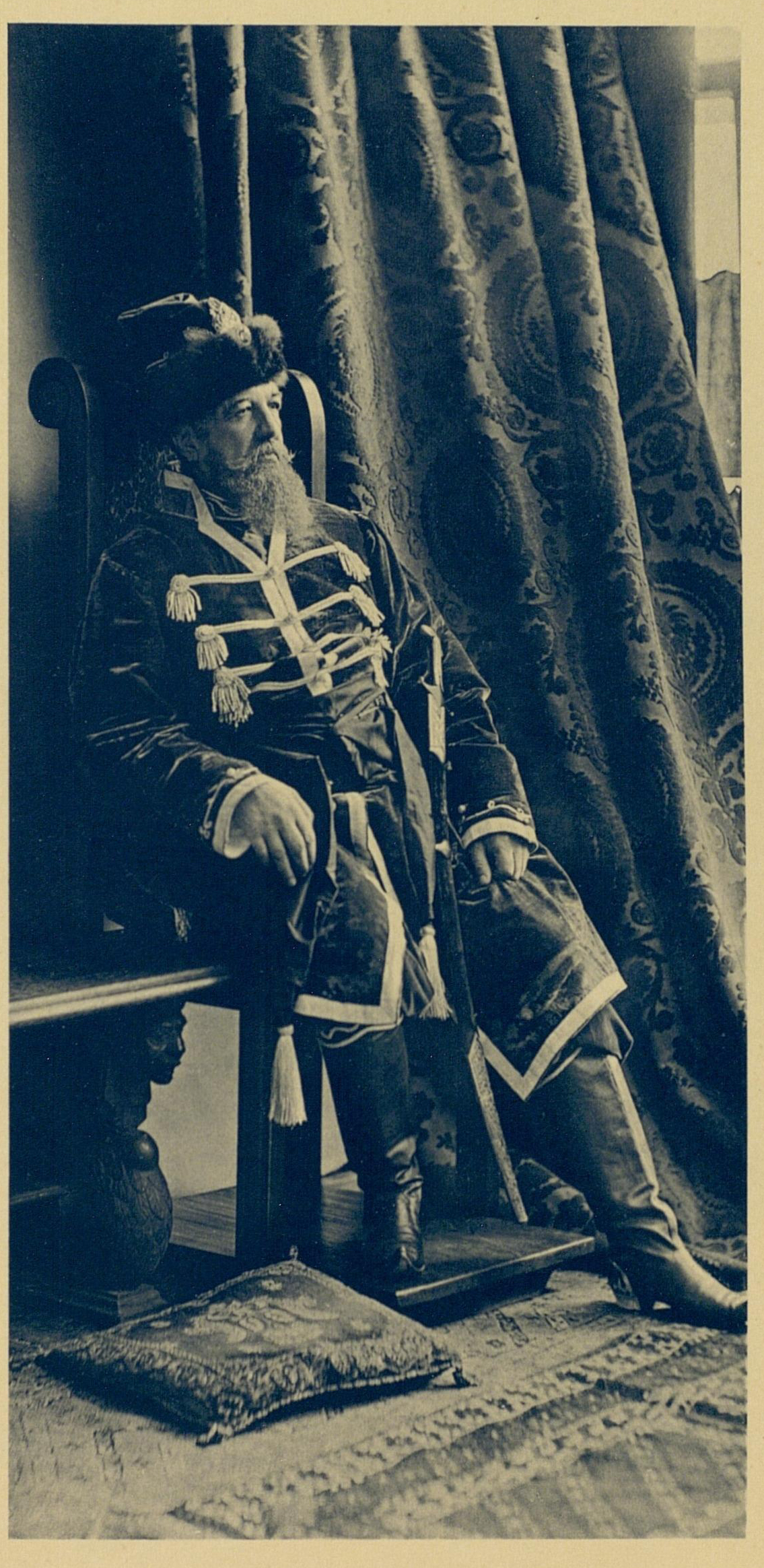 General-Adjutant Illarion Ivanovich, Count Vorontsov-Dashkov